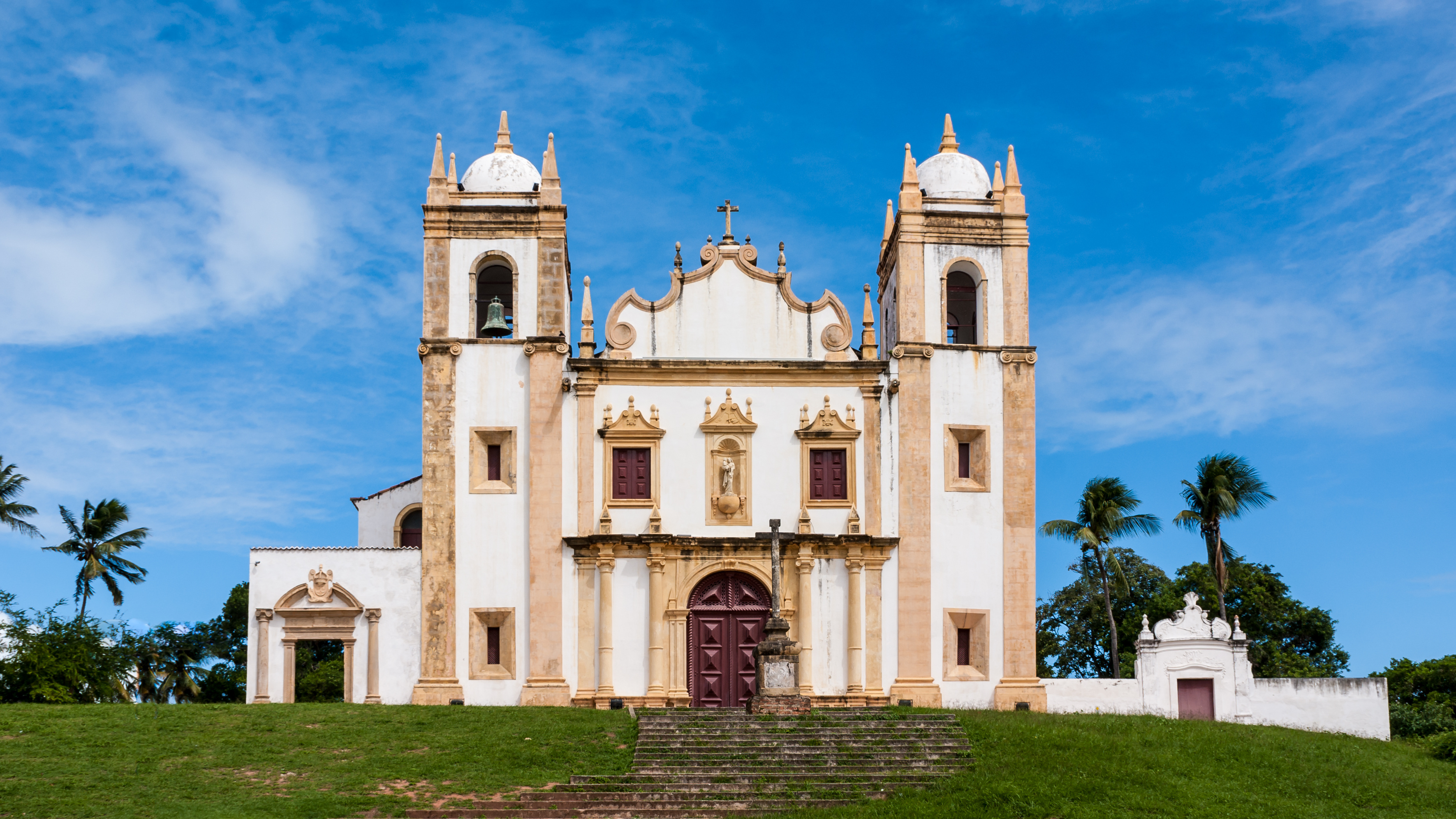 Church of Carmel, Olinda, Brazil